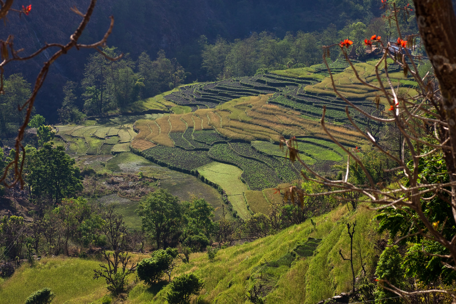 Terraces, south of Ghara